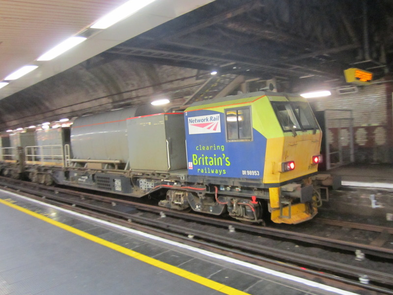 British Rail MPV DR98953 at James Street railway station, Liverpool, England.